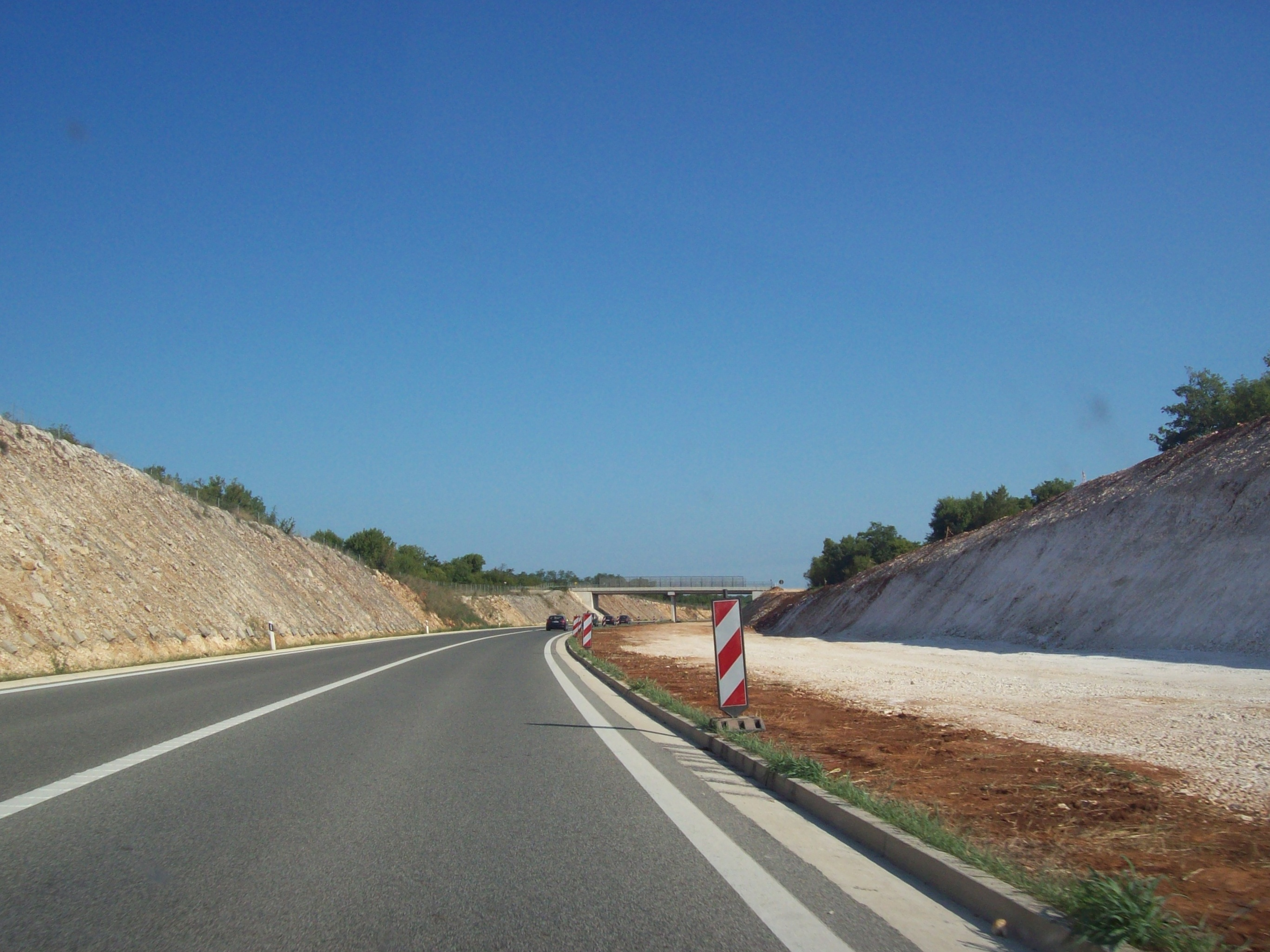 Building of the Croatian motorway A9, August 2009